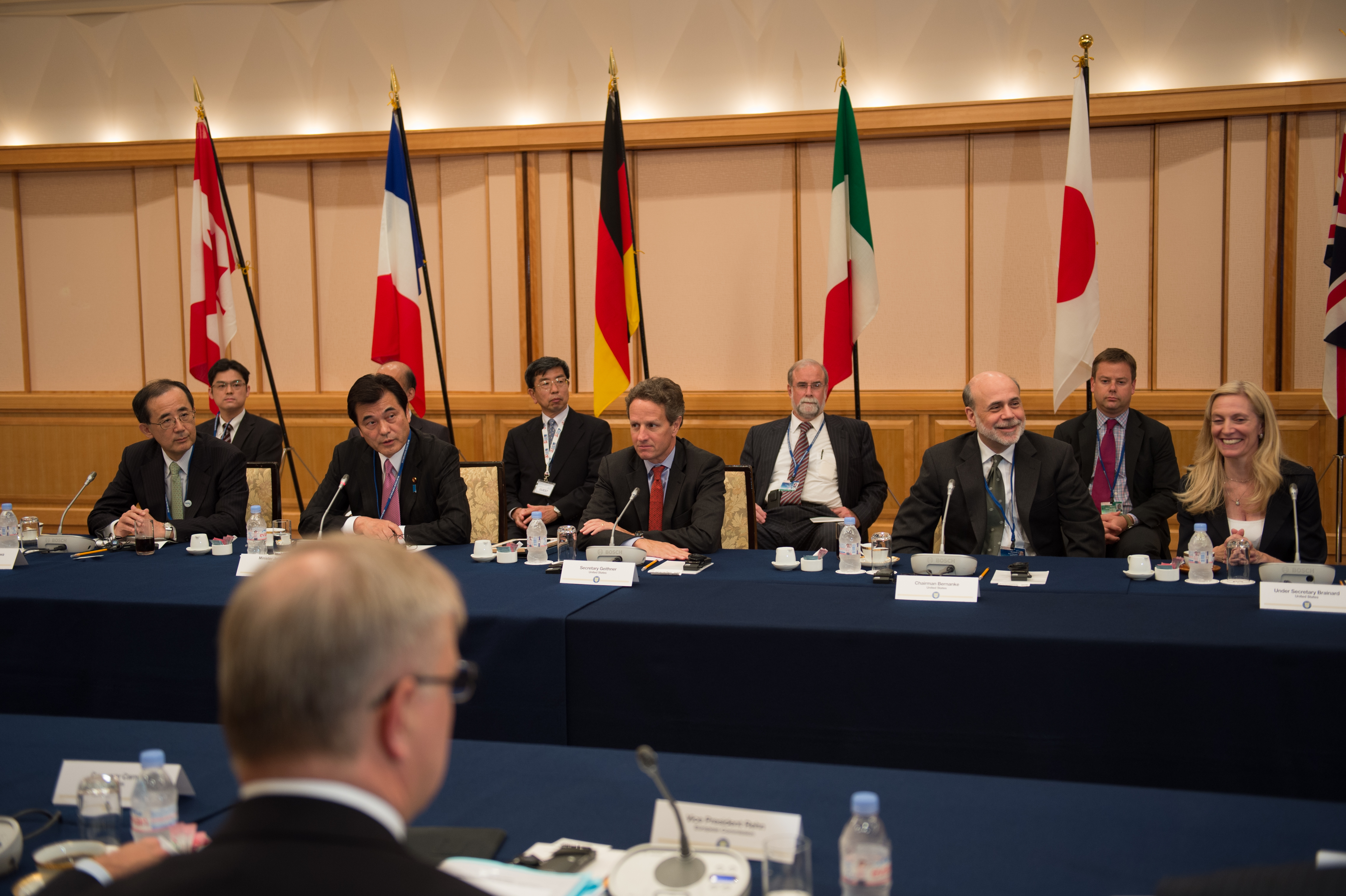 TOKYO, Japan (October 1１, 2012) U.S. Secretary of Treasury Timothy Geithner with Japan’s Finance Minister Koriki Jojima (left) and U.S. Federal Reserve Chairman Ben Bernanke during the Group of Seven (G-7) meeting in Tokyo [State Department photo by William Ng/Public Domain]